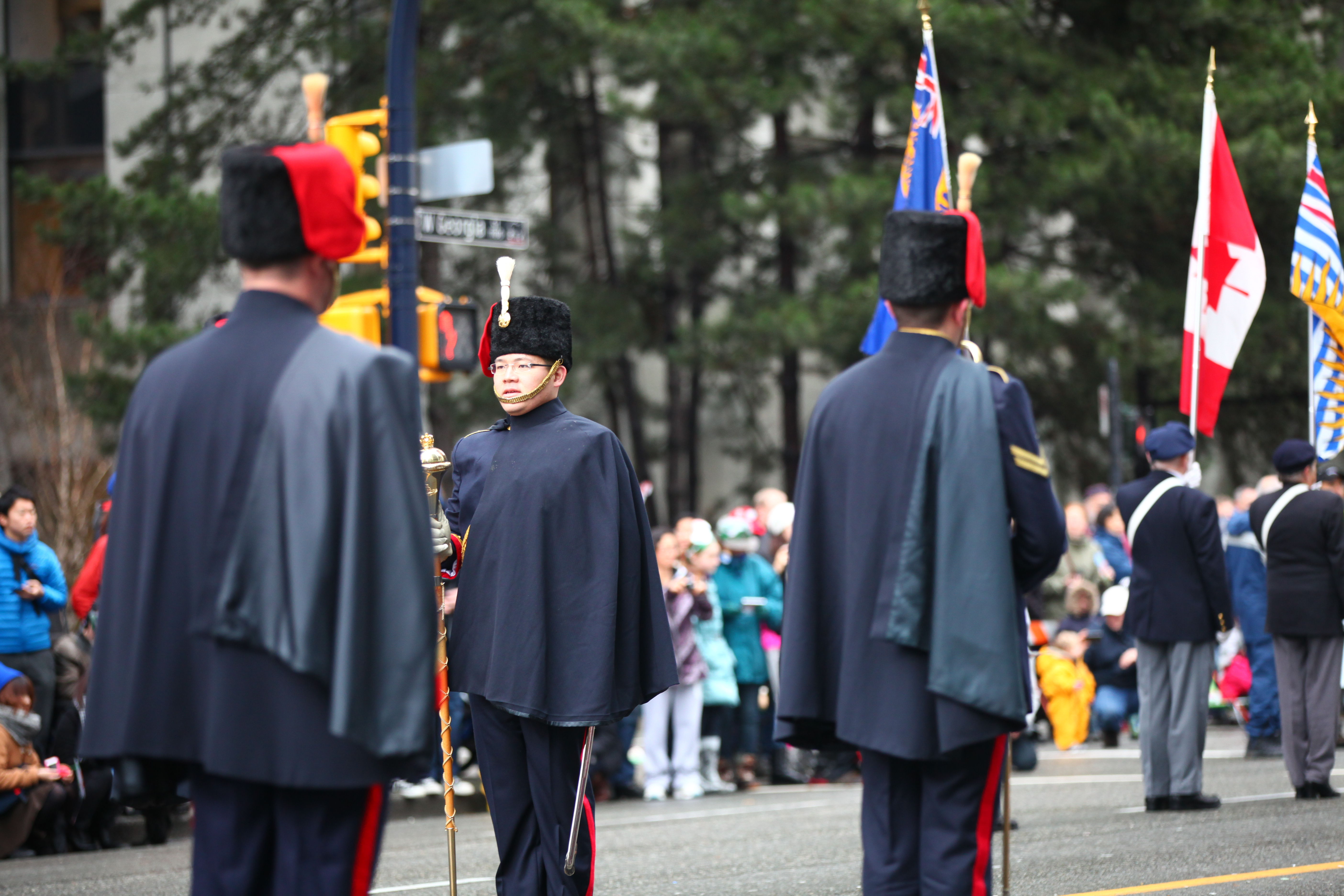 Rogers Santa Claus Parade